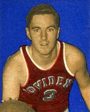 Professional basketball player Ernie Calverley